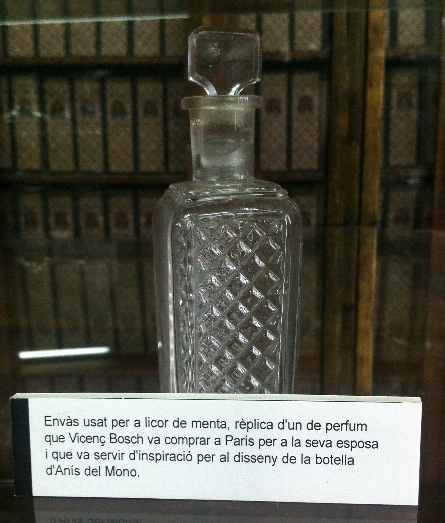 Container used to mint liqueur, originally from Paris, which served as inspiration for the design of the bottle of Anis del Mono.